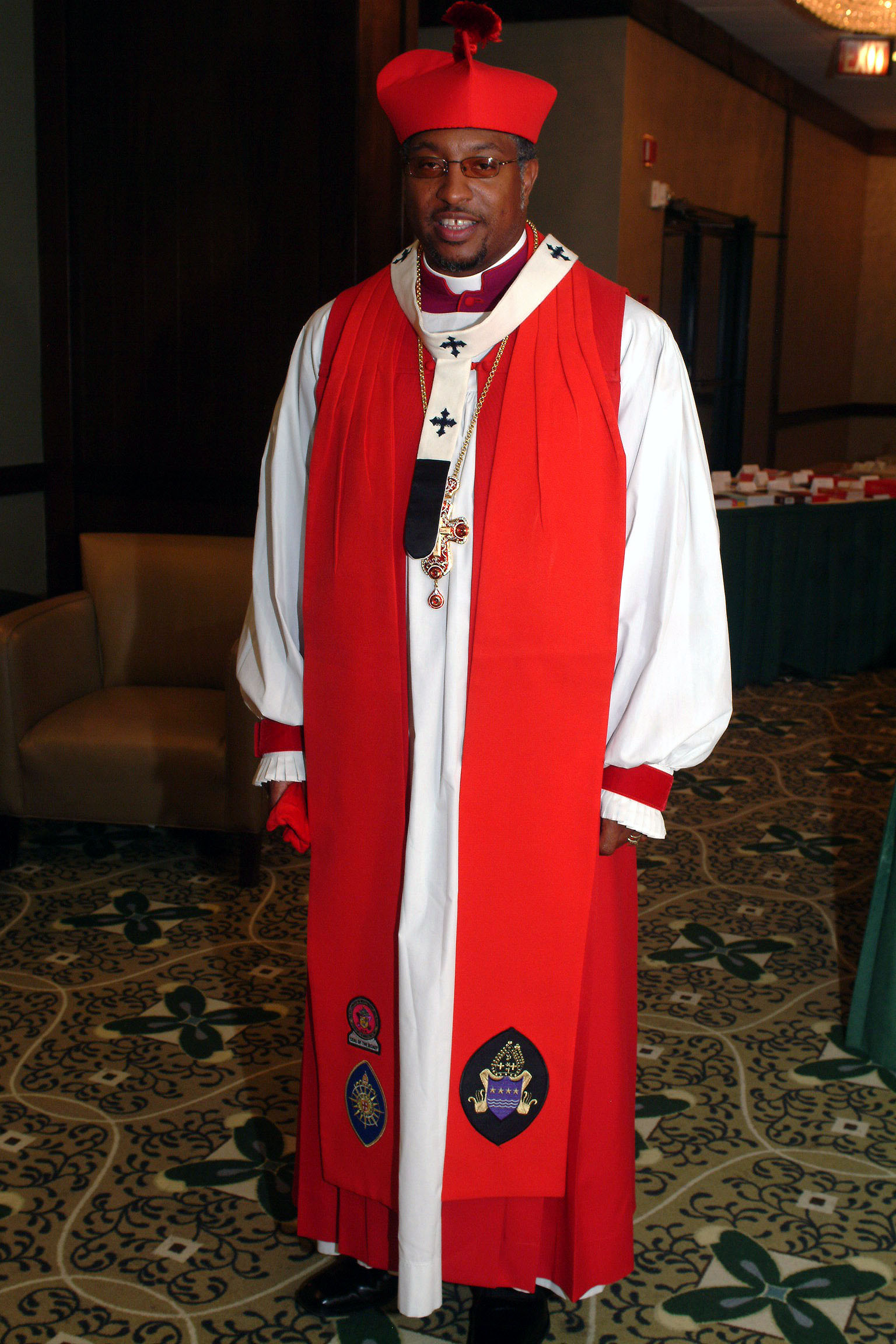 Archbishop William E. Brown in Choir Dress; Last Night of Annual Bishop's College 2005